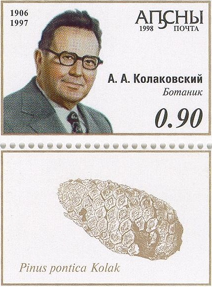 Postage stamp of Abkhazia, Kolakovsky, Alfred Alekseevich, botanist